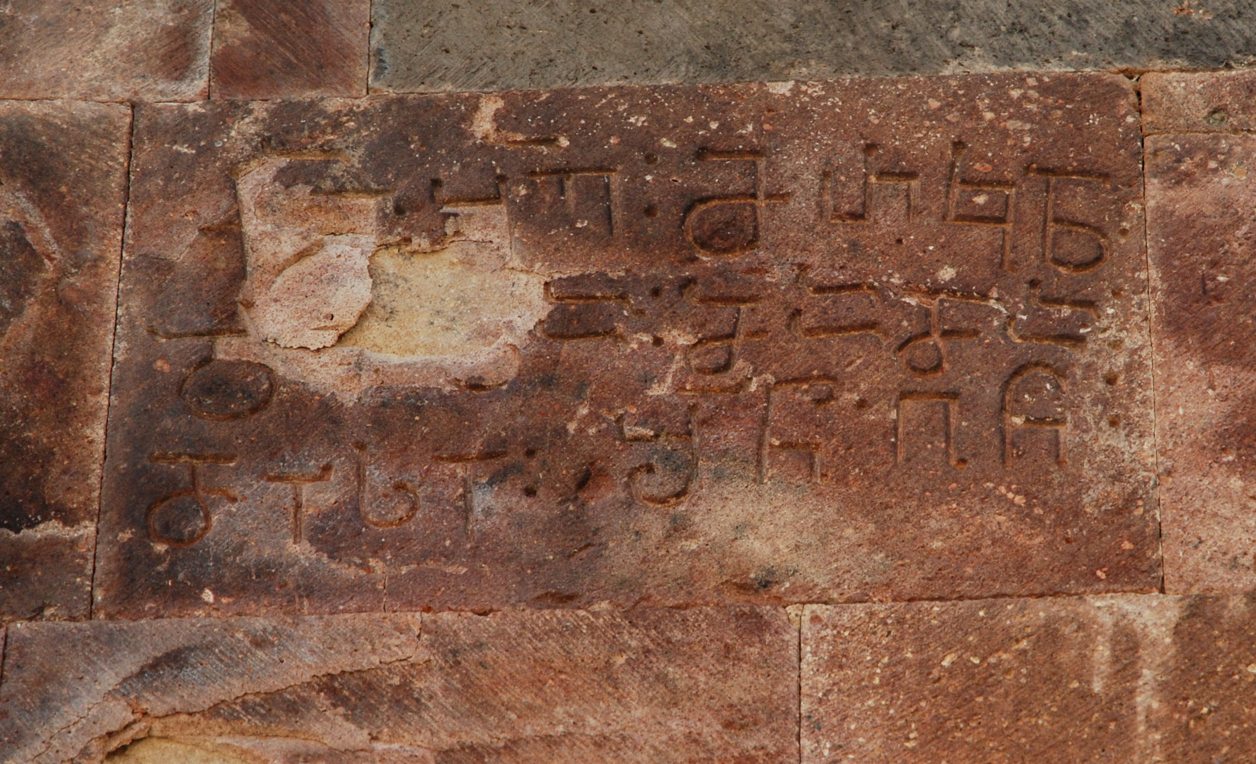 Porta, or Khandzta, inscription at bell tower